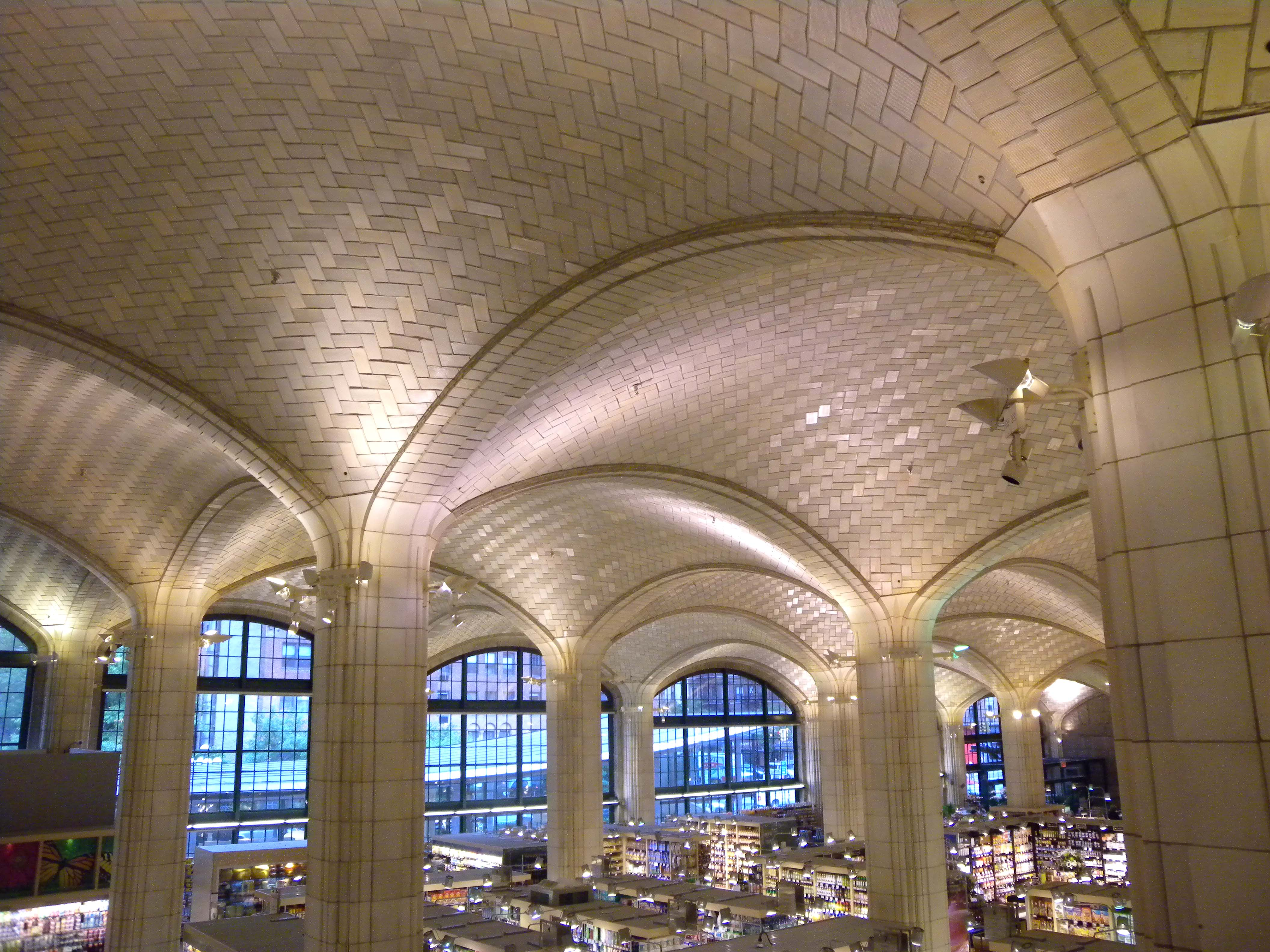 Looking west from balcony under Bridgemarket's vaulted ceiling.